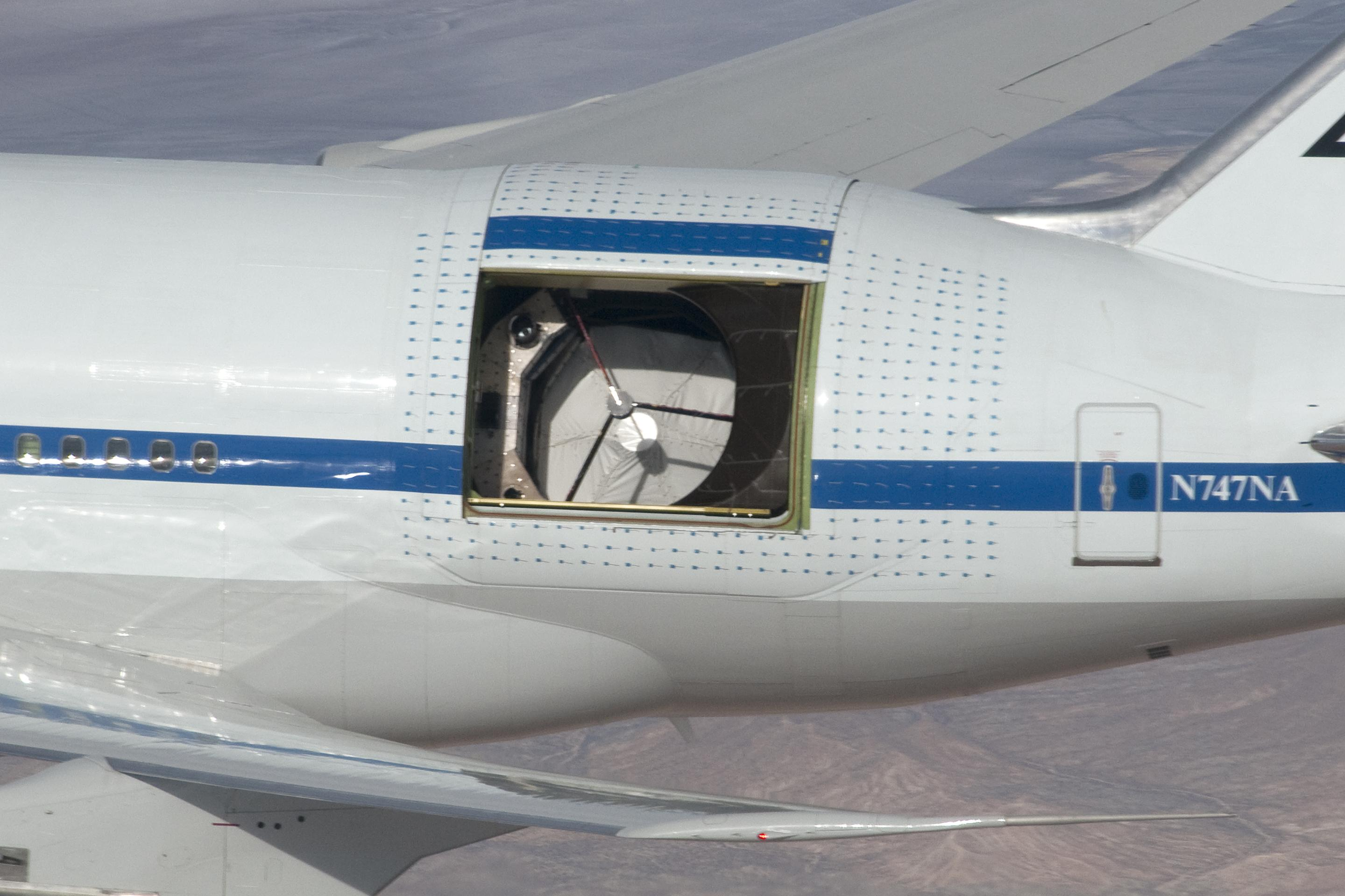 Stratospheric Observatory for Infrared Astronomy (NASA/DLR) with open telescope doorsA German-built telescope is exposed during a flight of NASA's Stratospheric Observatory for Infrared Astronomy 747SP on Dec. 18, 2009. The telescope doors were fully opened, allowing engineers to understand how air flows in and around the telescope.